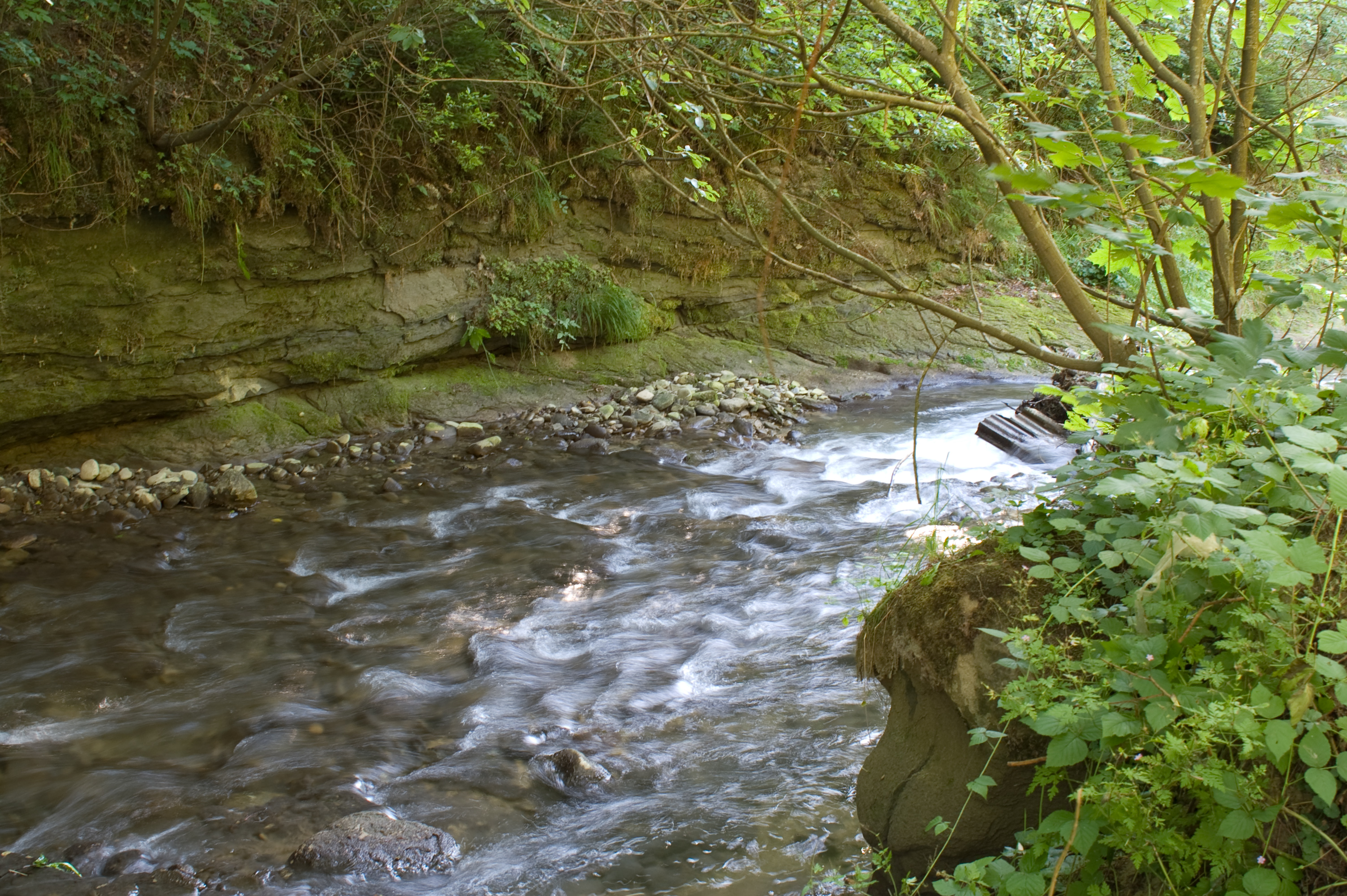 Gotteron river in Fribourg, Switzerland.